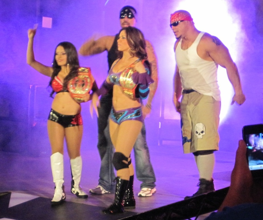 Professional wrestling group Mexican America making their entrance at the June 13, 2011, tapings of Impact Wrestling.